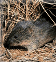 Prairie vole (Microtus ochrogaster). At Tallgrass Prairie National Preserve — in the Flint Hills of northeastern Kansas. A tallgrass prairie Category:National Preserves of the United States.